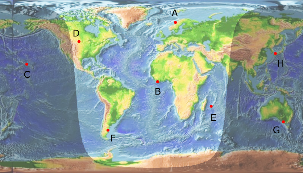 Omega radio navigation system, worldwide location of the 8 transmitter stations